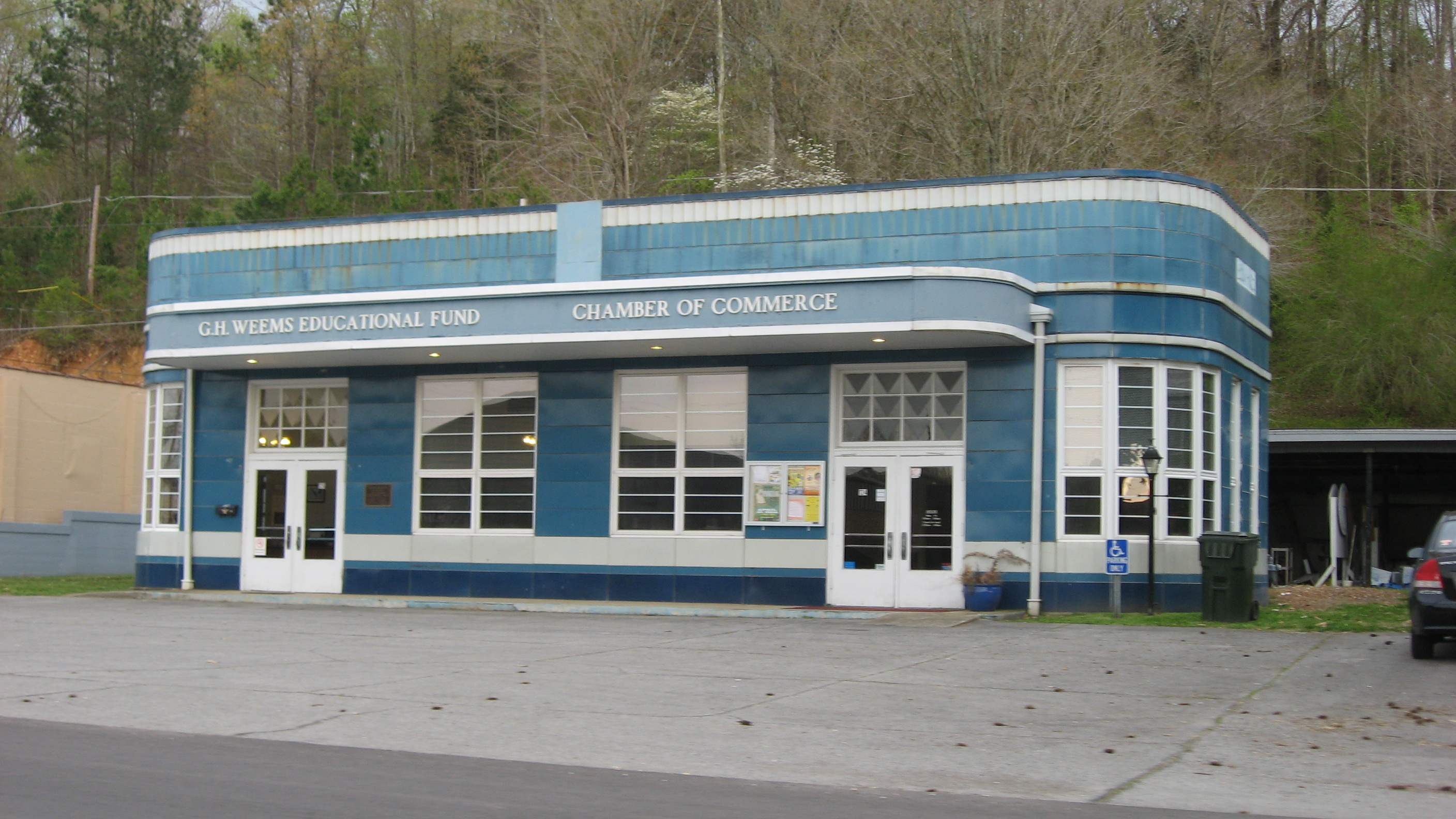 Western end and front of the Greyhound Half-Way House (now the chamber of commerce), located at 124 E. Main Street on Fort Hill Drive in Waverly, Tennessee, United States. Built in 1939, it is listed on the National Register of Historic Places.